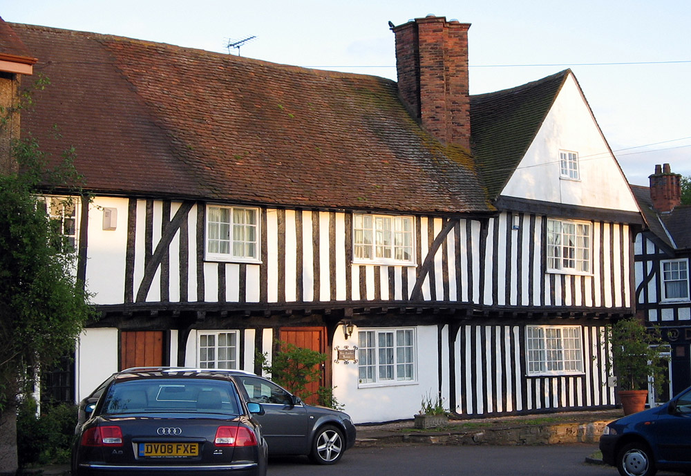 "Guy Fawkes House" in Dunchurch Warwickshire. The house was formerly the "Red Lion Inn" where the gunpowder plotters are believed to have stayed in 1605 to await news of the plot. It is now a private residence.